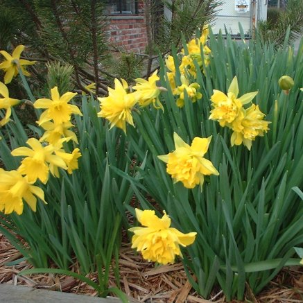 Spring daffodils in fresh shredded wood mulch